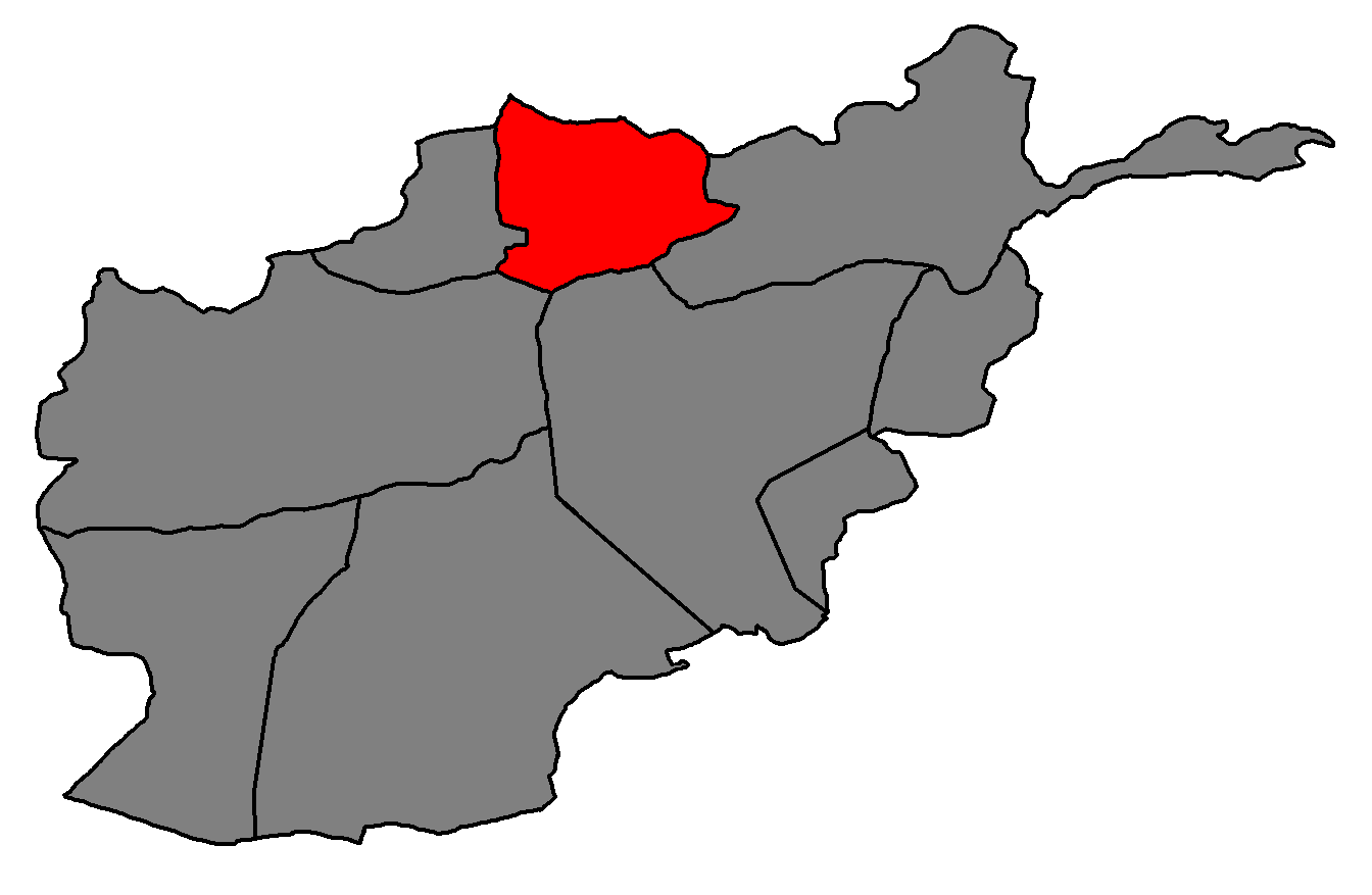 This map illustrates the Afghan Turkestan Province, a former province of Afghanistan, in 1929.